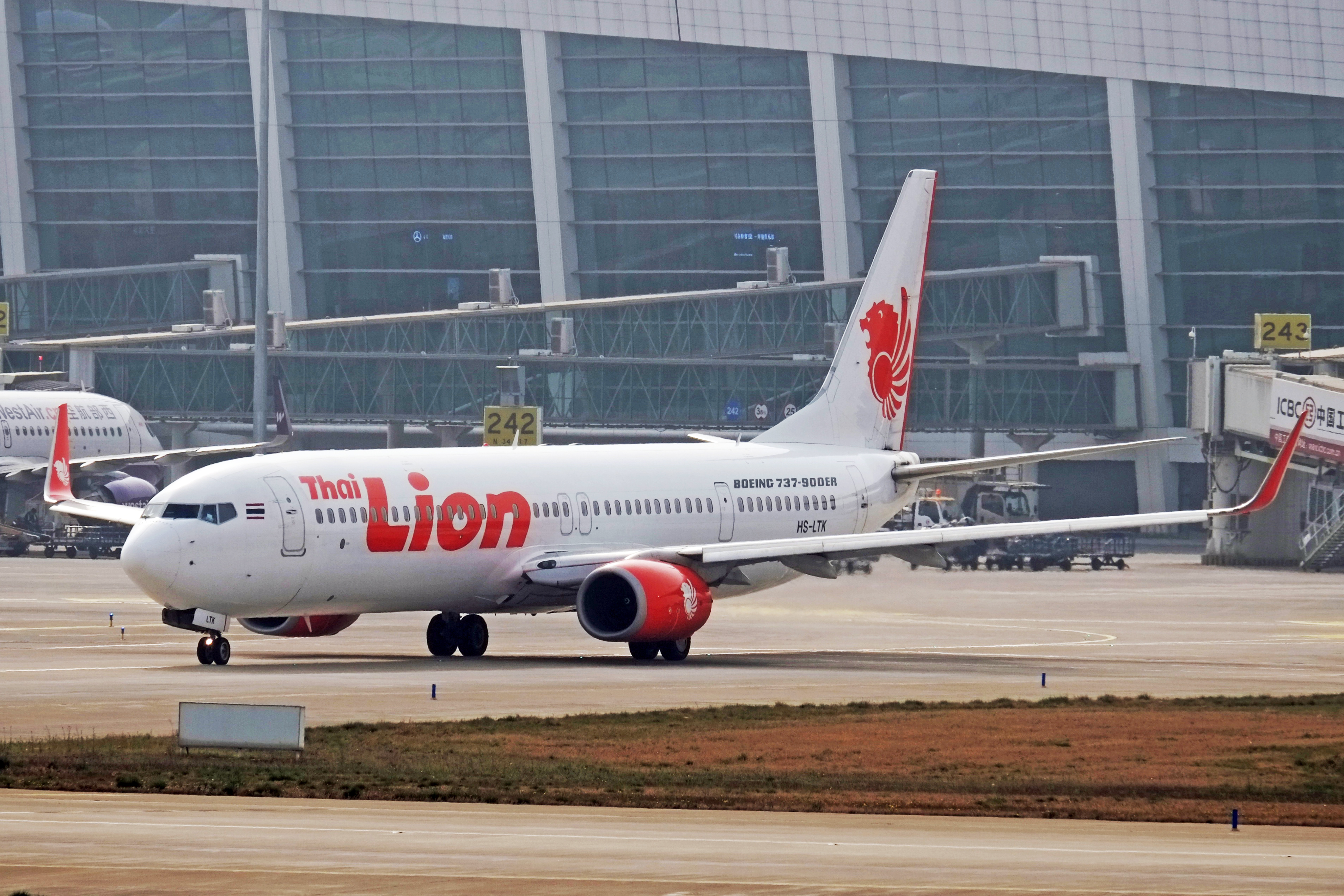 HS-LTK on flight SL977 to Phuket at CGO